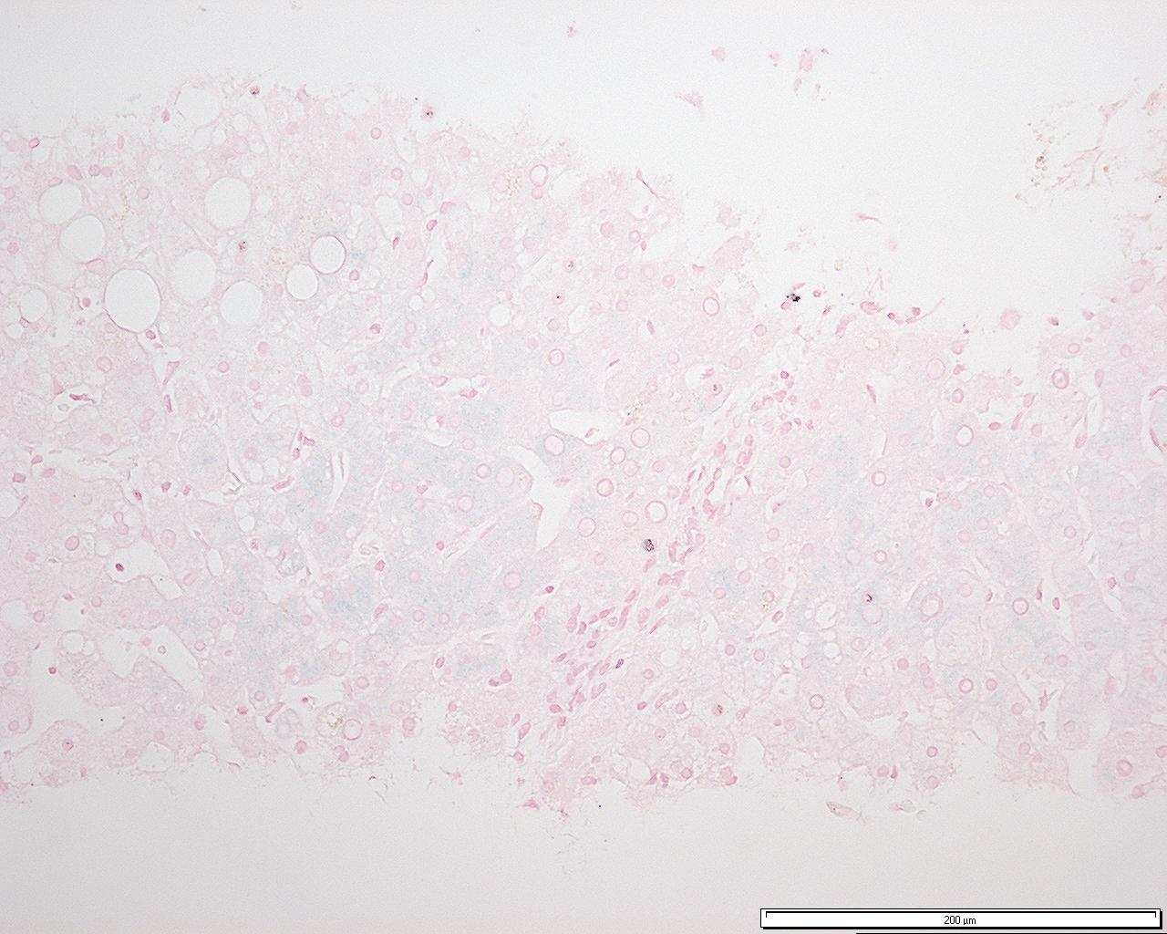 Perl's Prussian Blue stain for iron shows a typical pattern of iron accumulation seen in heterozygous genetic Hemochromatosis